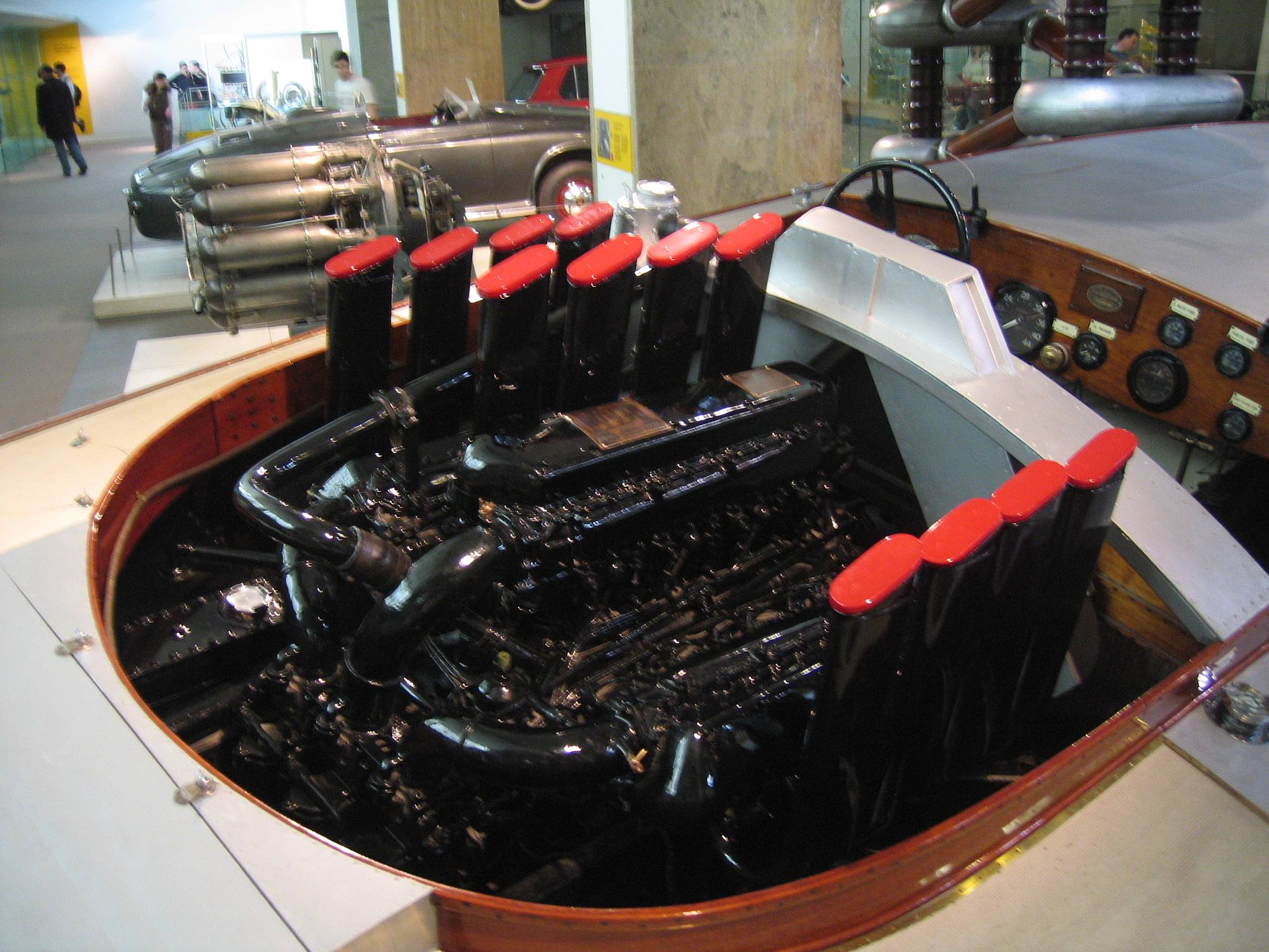 Rear view of Miss England I, showing her Napier Lion VIIA engine. Located at the Science Museum, London